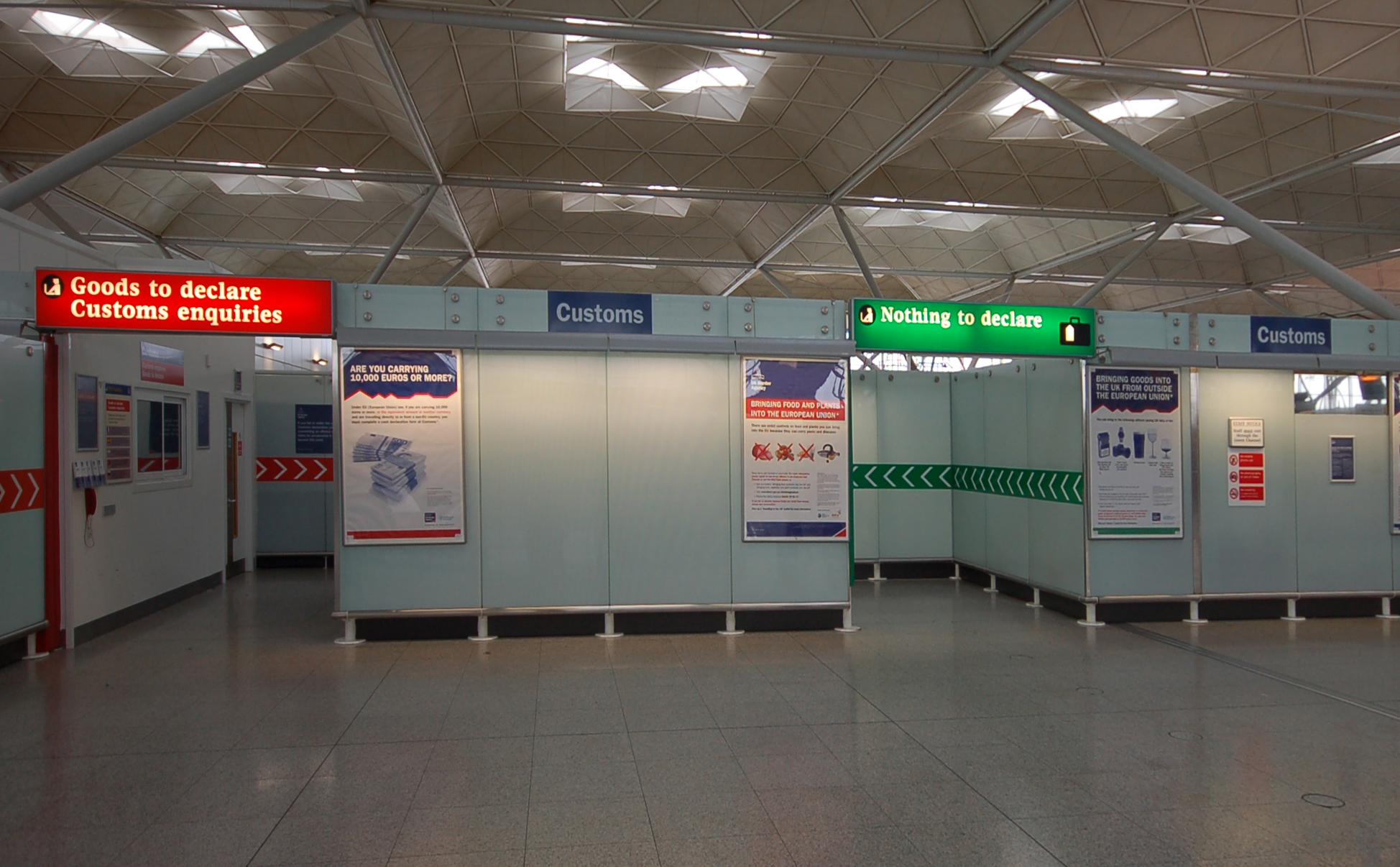 customs control at London Stansted Airport